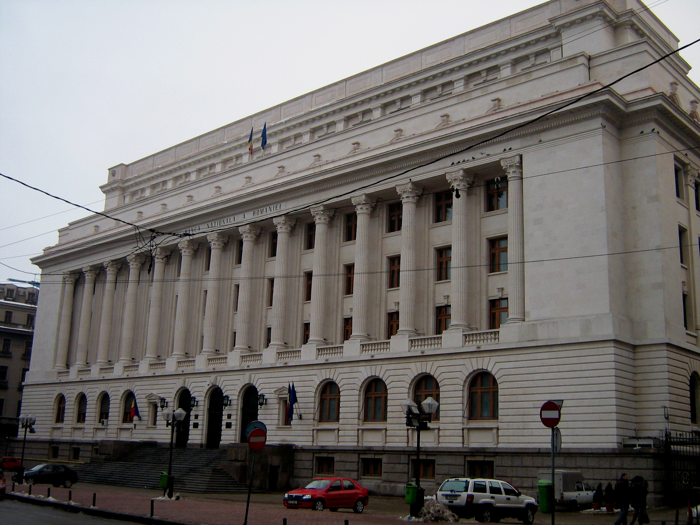 National Bank of Romania